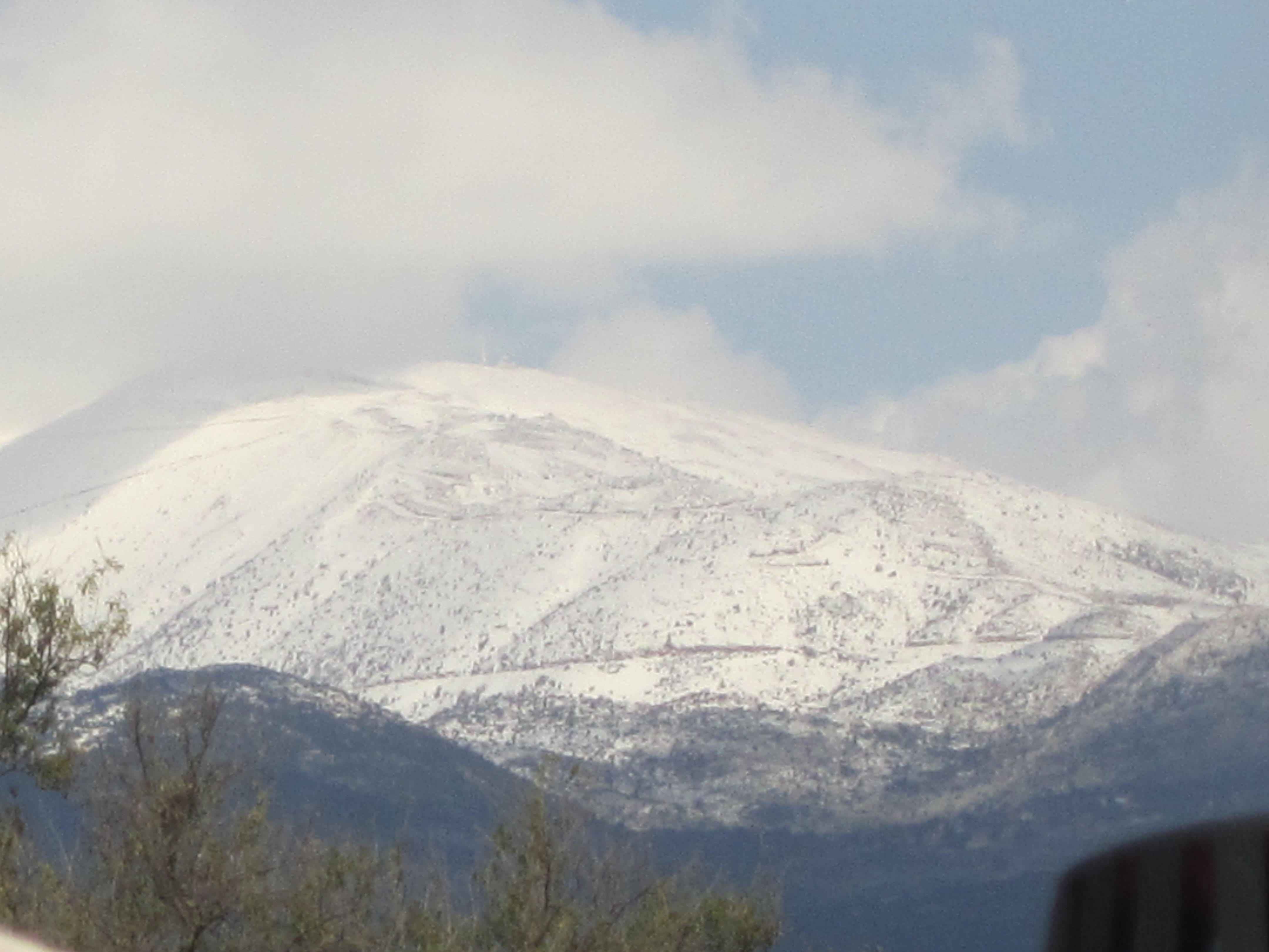 Mount Hermon in 2011.